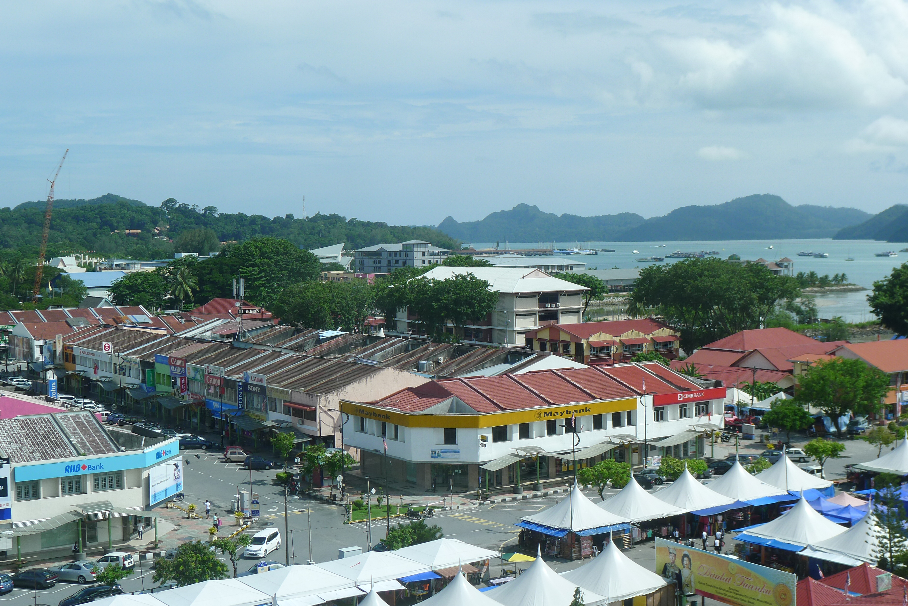 A view of Kuah town, the commercial center of Pulau Langkawi.